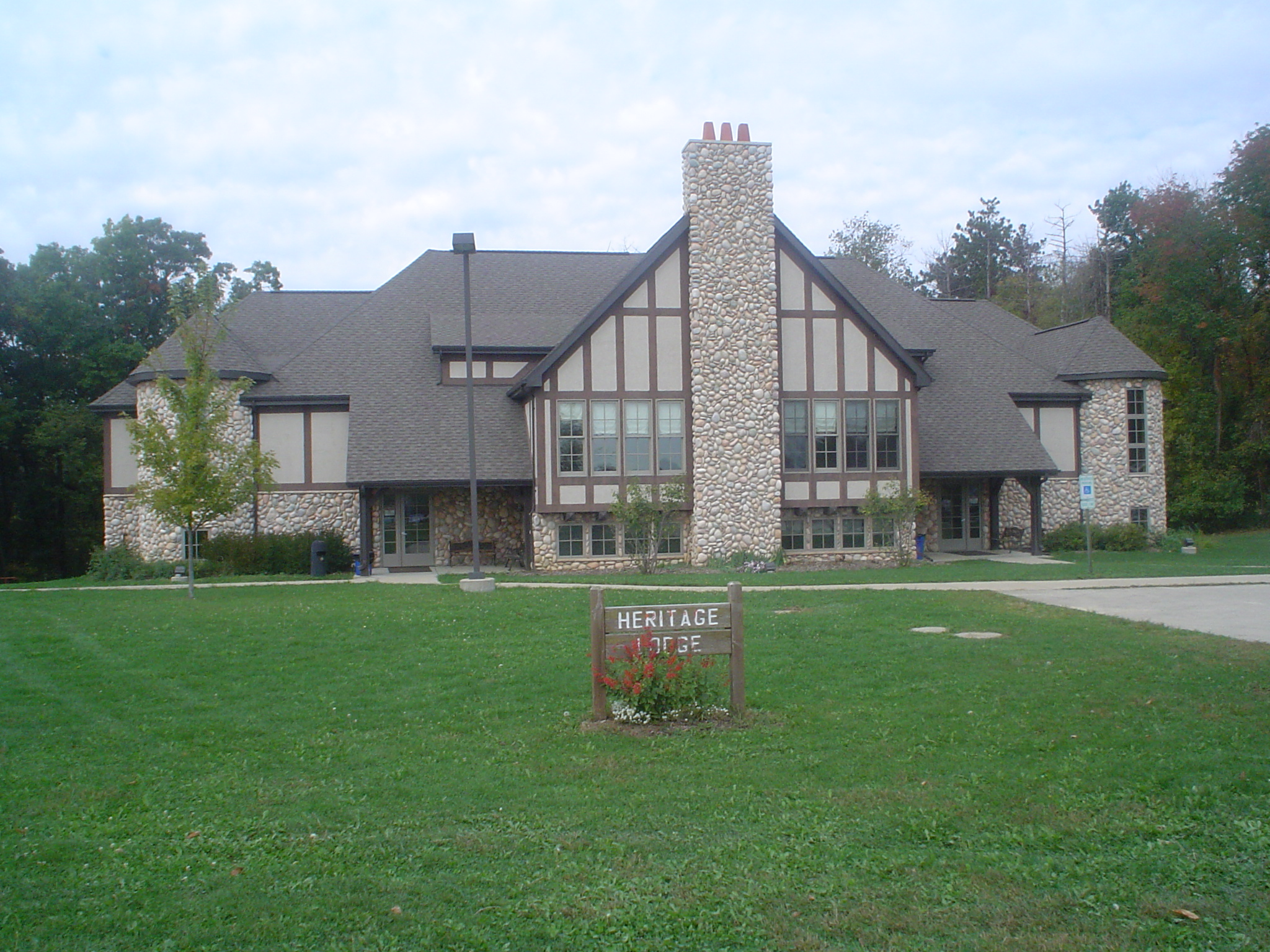 The newer built Heritage Lodge of Stronghold Castle, Oregon, Illinois, USA.